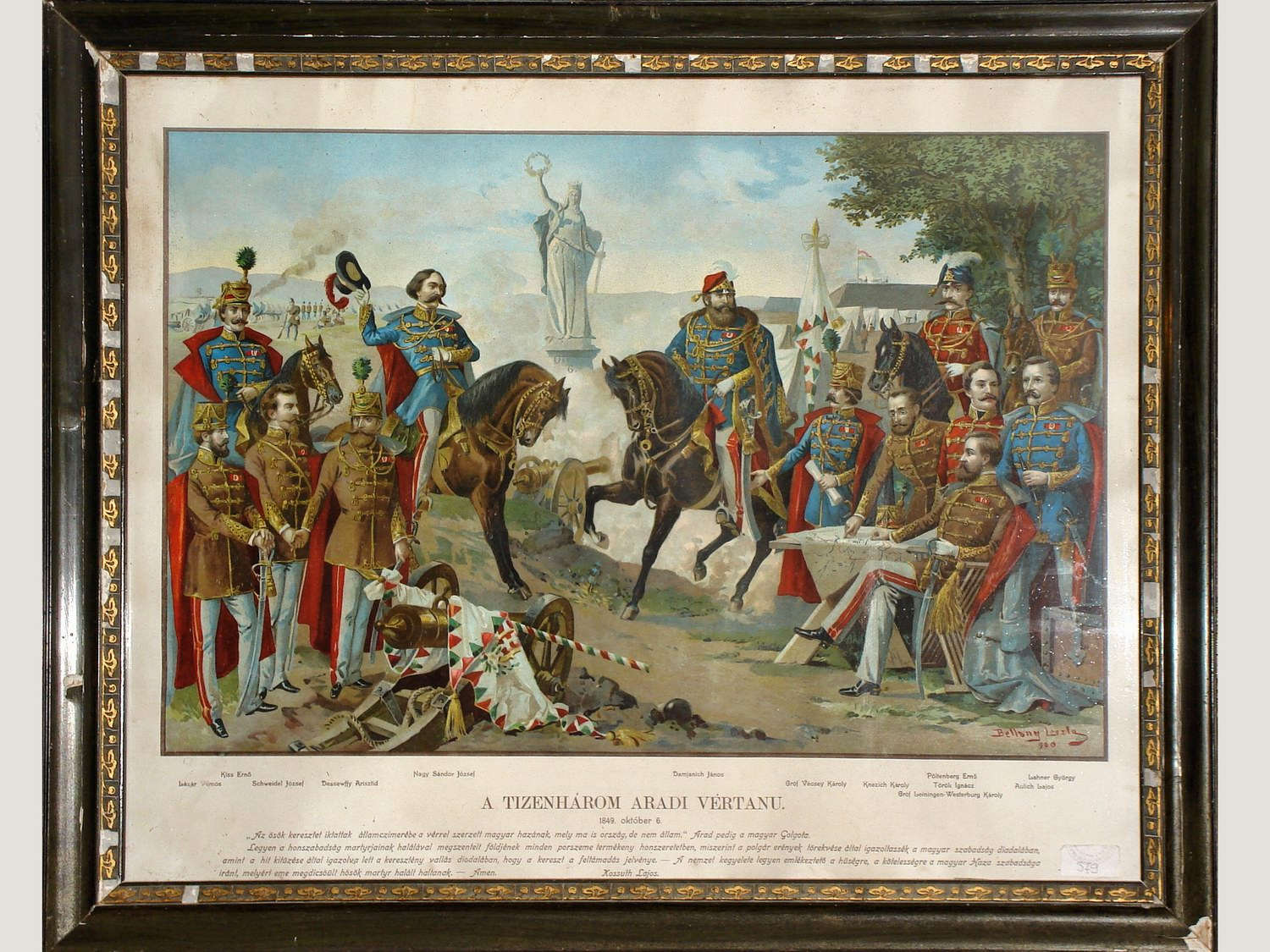 The 13 Martyrs of Arad